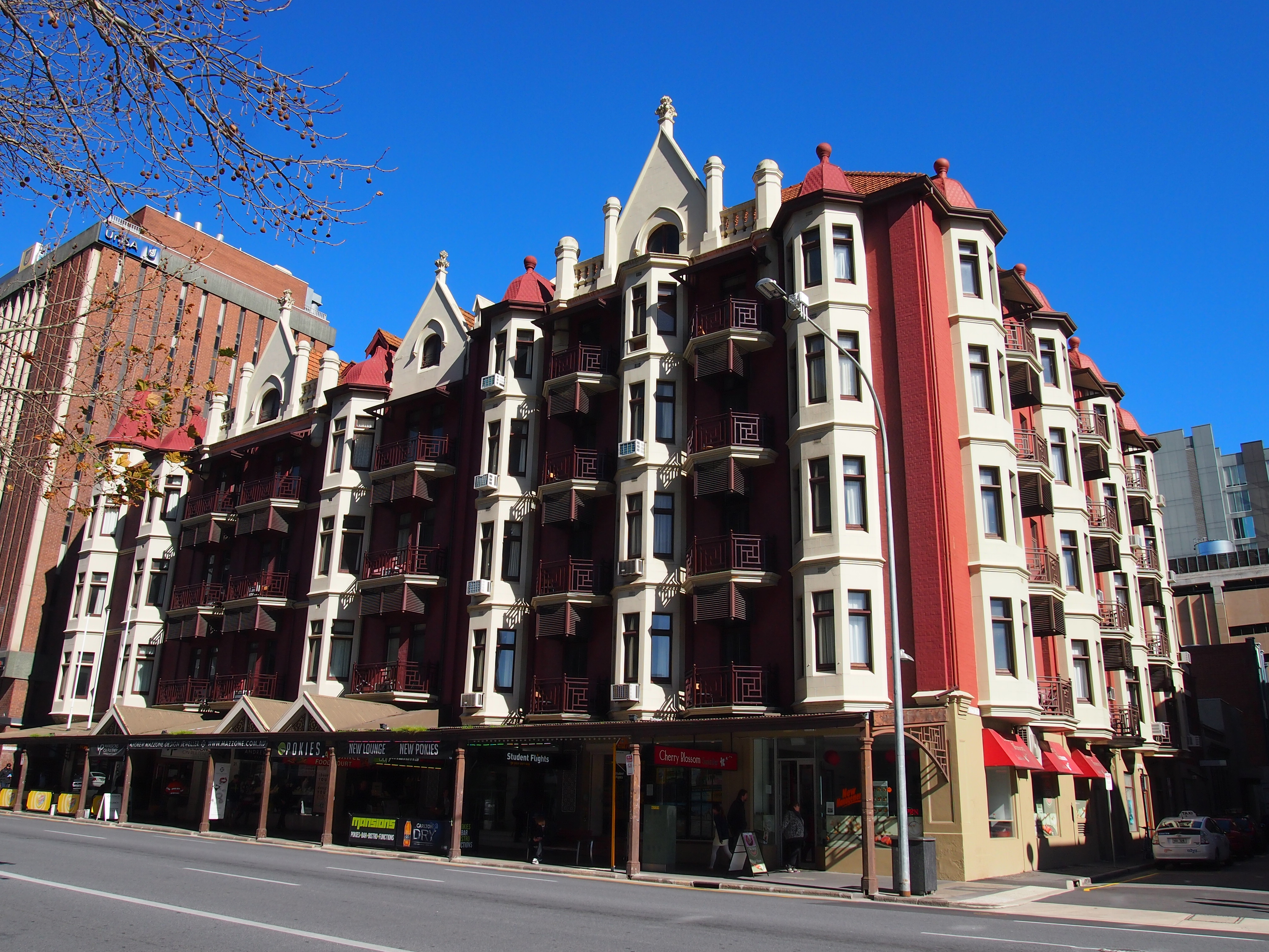 Ruthven Mansions, 21 Pulteney Street, Adelaide, built in 1911. Original filename = P8043772.JPG